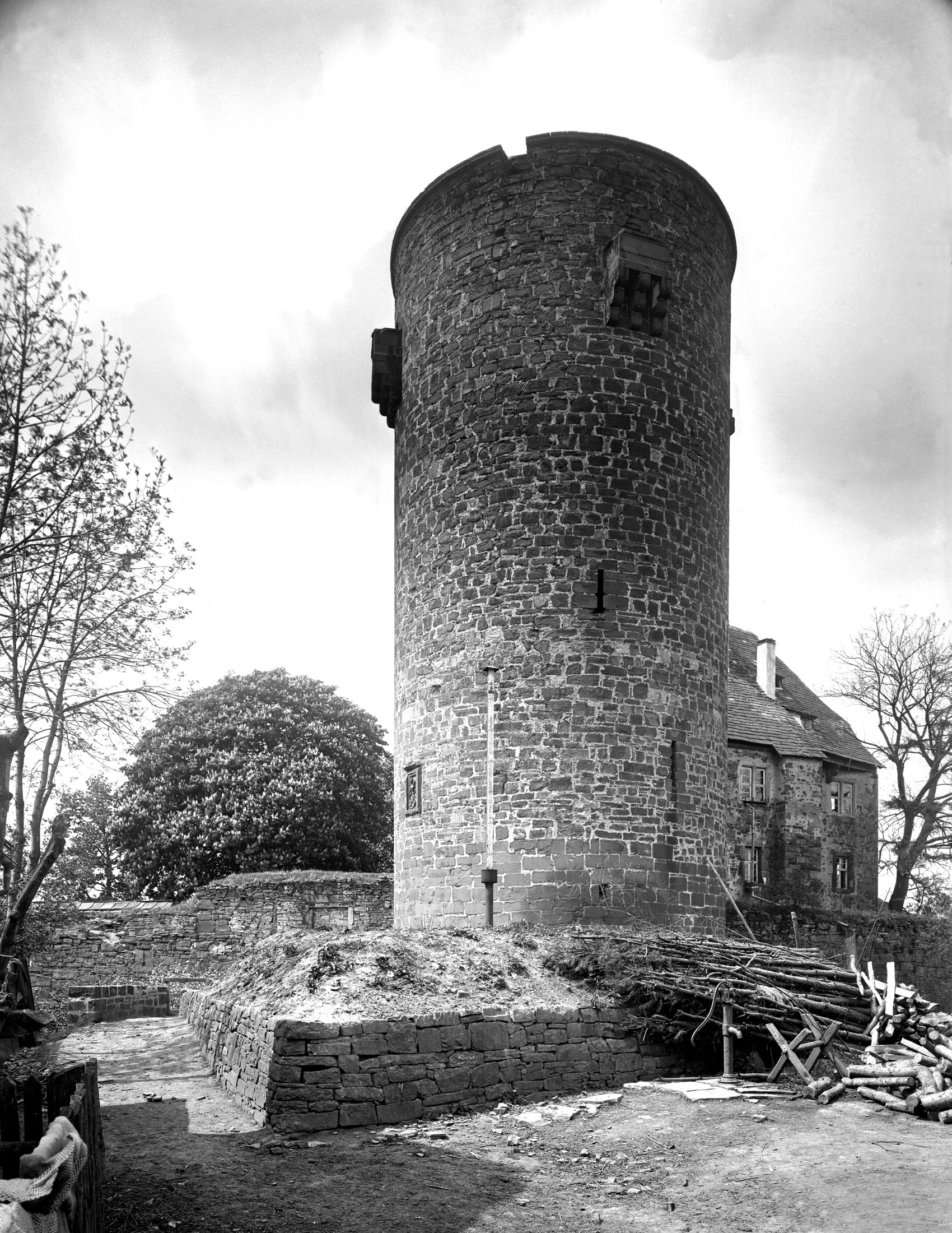 Trendelburg: Keep of Trendelburg castle (second half of the 15th century)